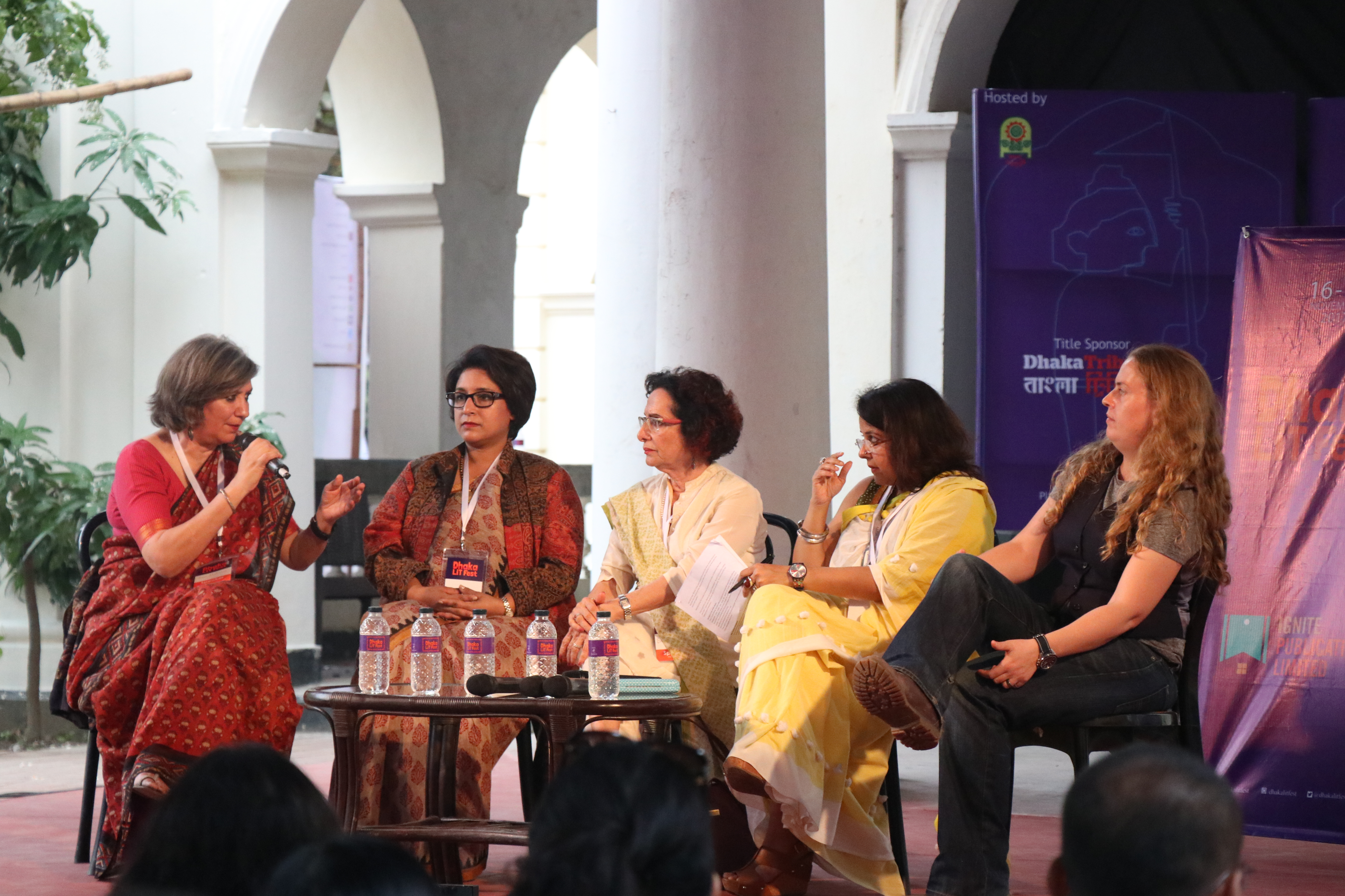 MeToo (#metoo) discussion at Dhaka Lit Fest 2017